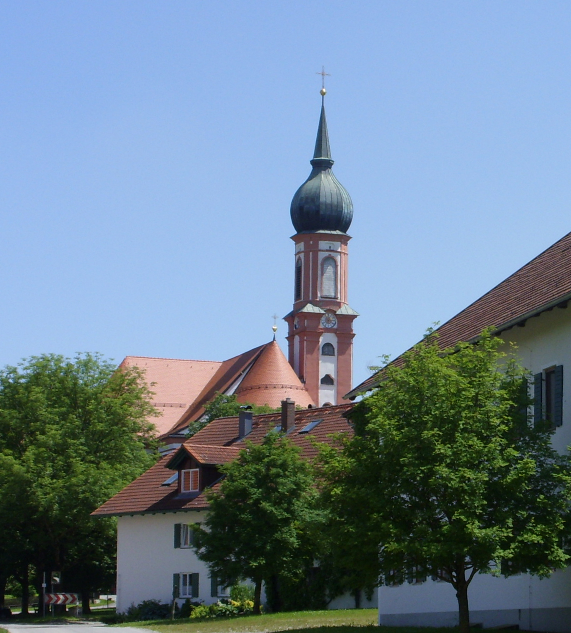 Pilgrimage Church "Mother of Sorrows" in Vilgertshofen, Upper Bavaria, Germany.